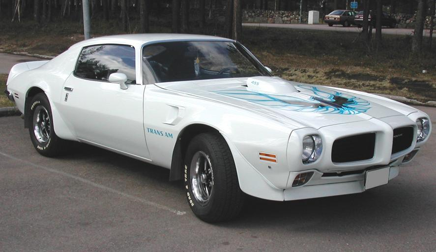 Pontiac Trans Am 1973